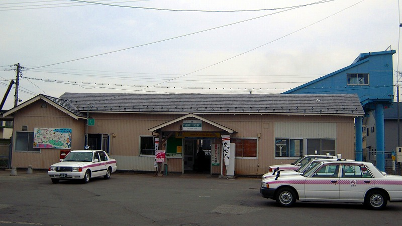 Uzen-Yamabe Station, JR East Aterazawa Line